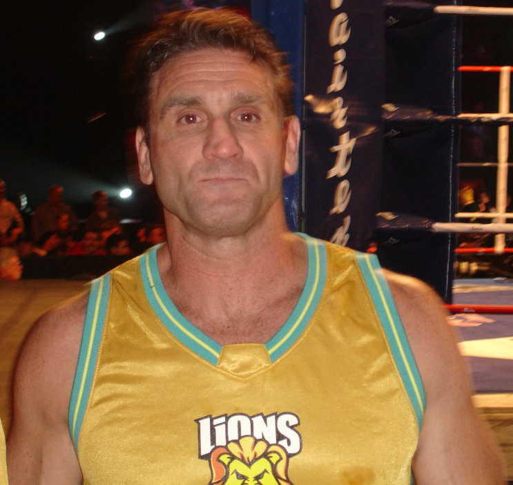 The picture of Ken Shamrock (IFL 2007 Oakland CA)